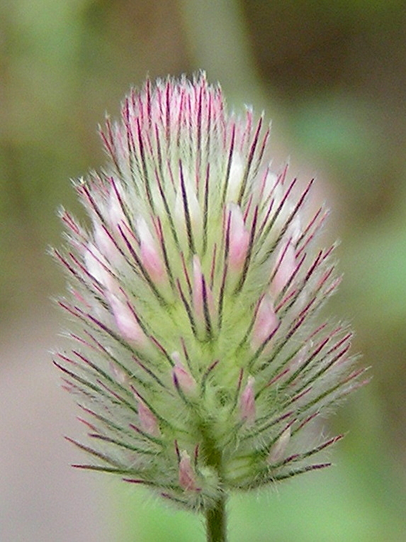 Trifolium arvense July 19, 2005 Mosel, Germany